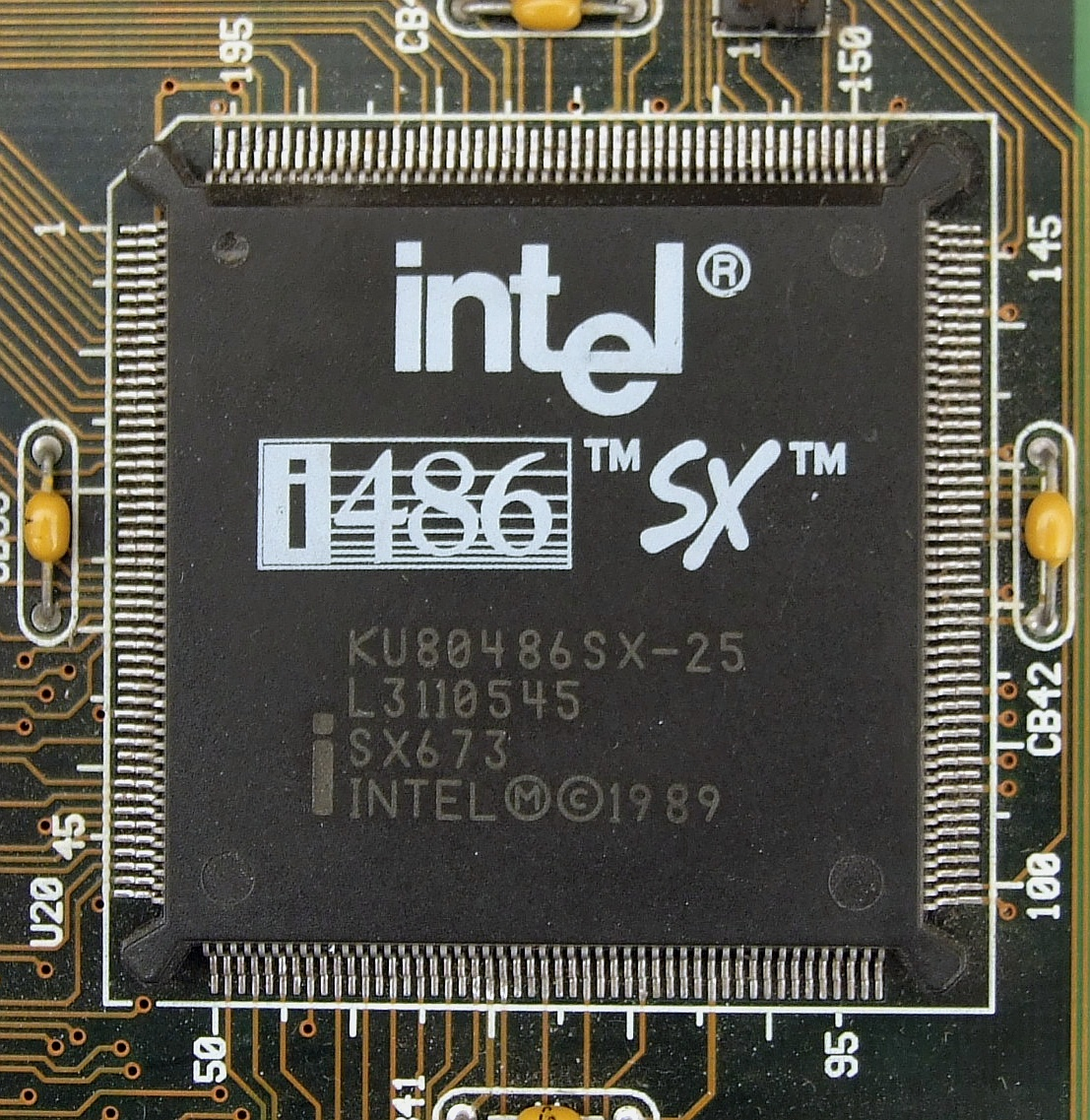 Intel i486SX-25, BQFP-196